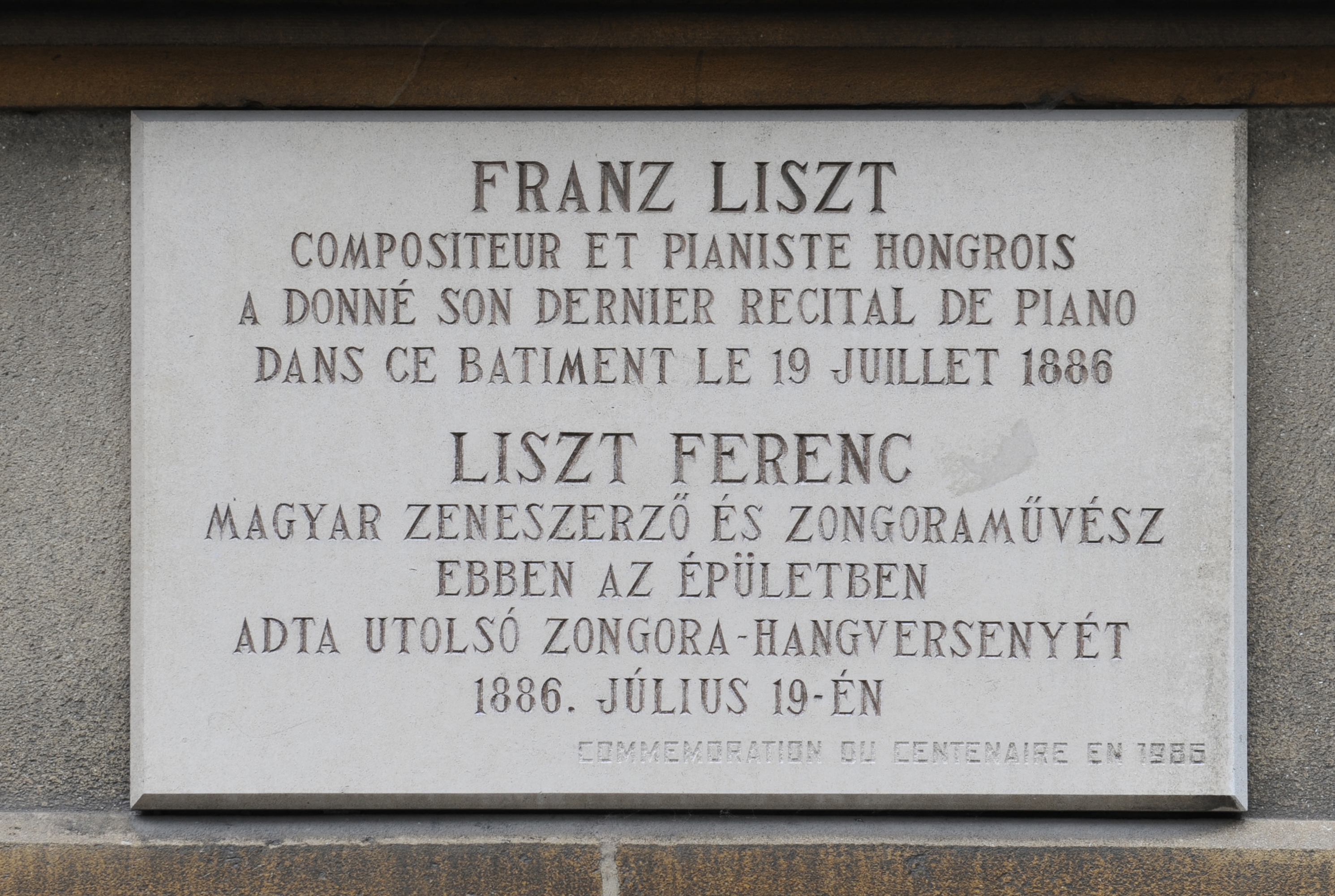 Luxembourg City, Casino Luxembourg - Forum d'art contemporain: Plaque commemorating the very last piano recital given by Franz Lizt in this building on July 19 1886, 12 days before his death (July 31 1886).